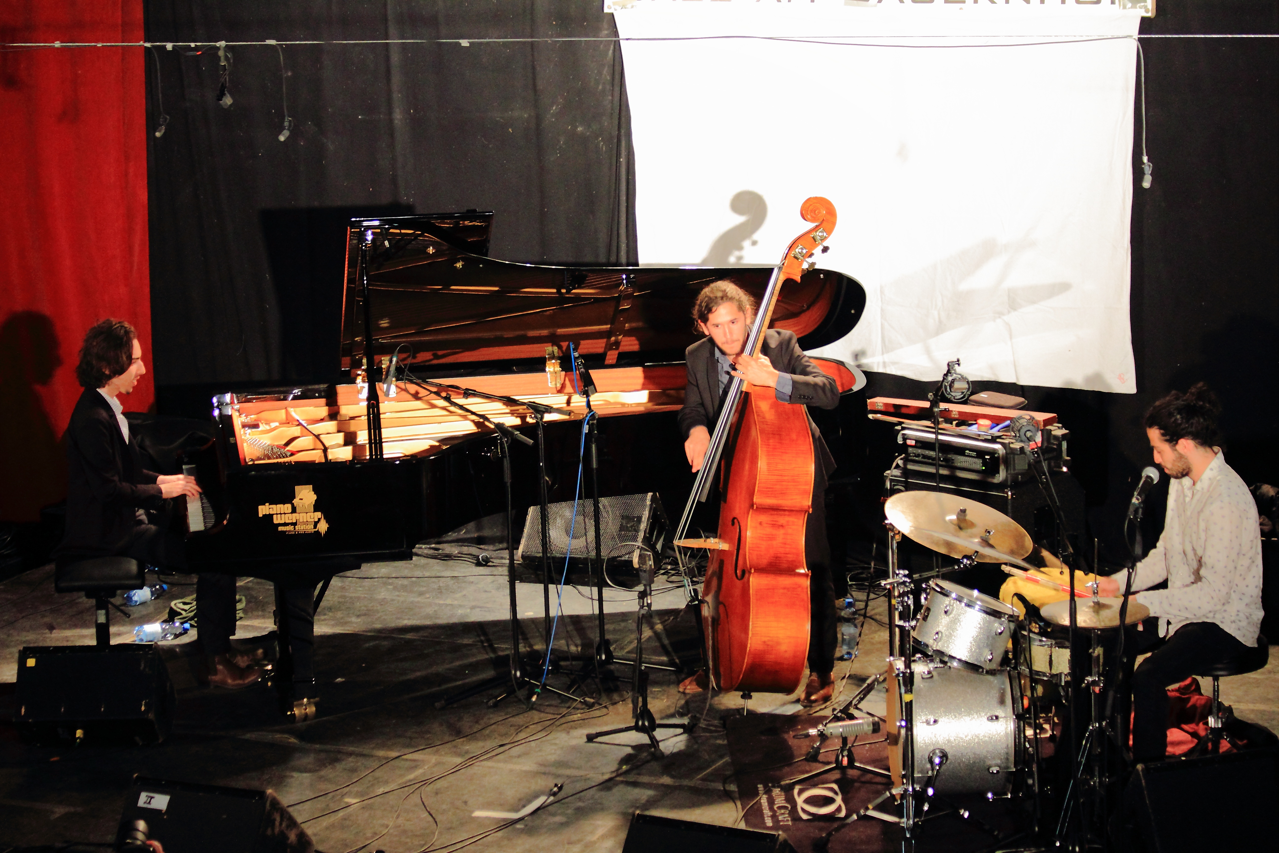 The Gadi Lehavi Trio at INNtöne Jazzfestival, Austria 2016.